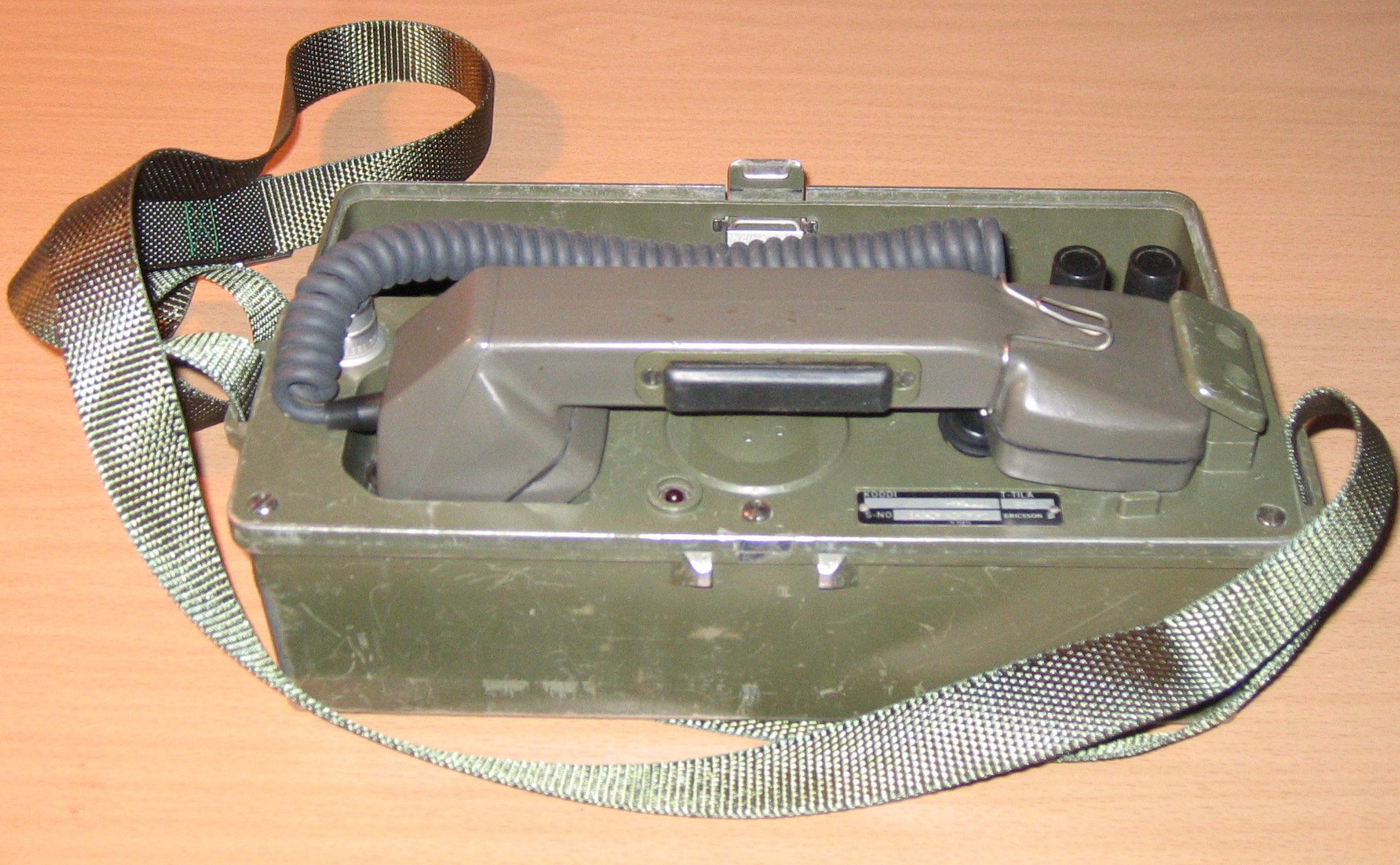 Finnish field telephone P-78, manufactured by Ericsson, Sweden.